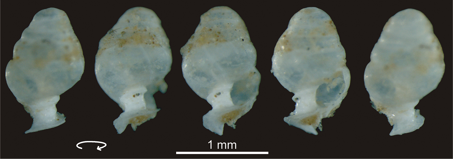 Columellar fold views of Zospeum tholussum. The columellar fold of the broken paratype specimen shell is shown in clockwise rotation.